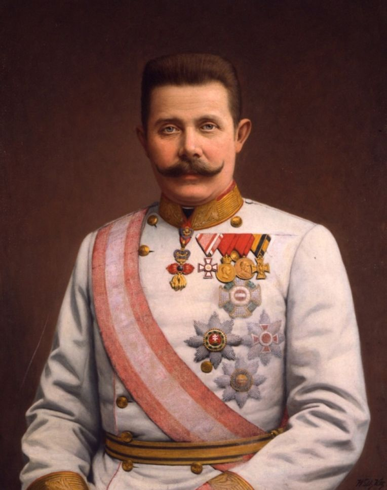 Portrait of Archduke Franz Ferdinand as Emperor of Austria (1863-1914)